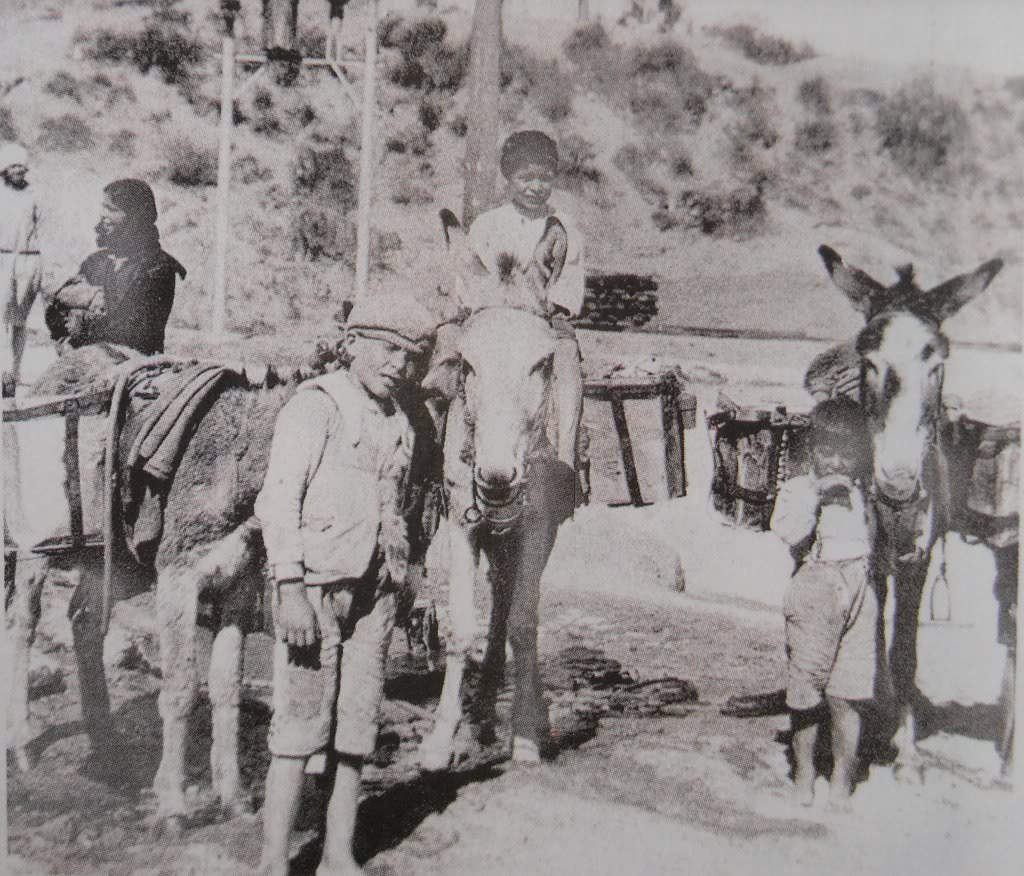 Donkeys carrying water in San Vicente neighborhood in the early 20th century. Cordoba, Argentina.